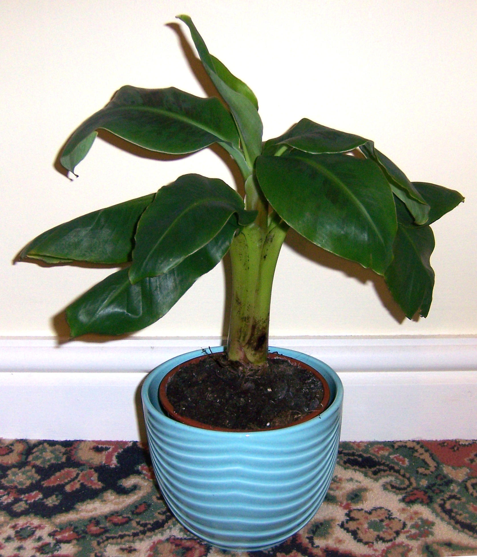 My cavendish banana taken by me.